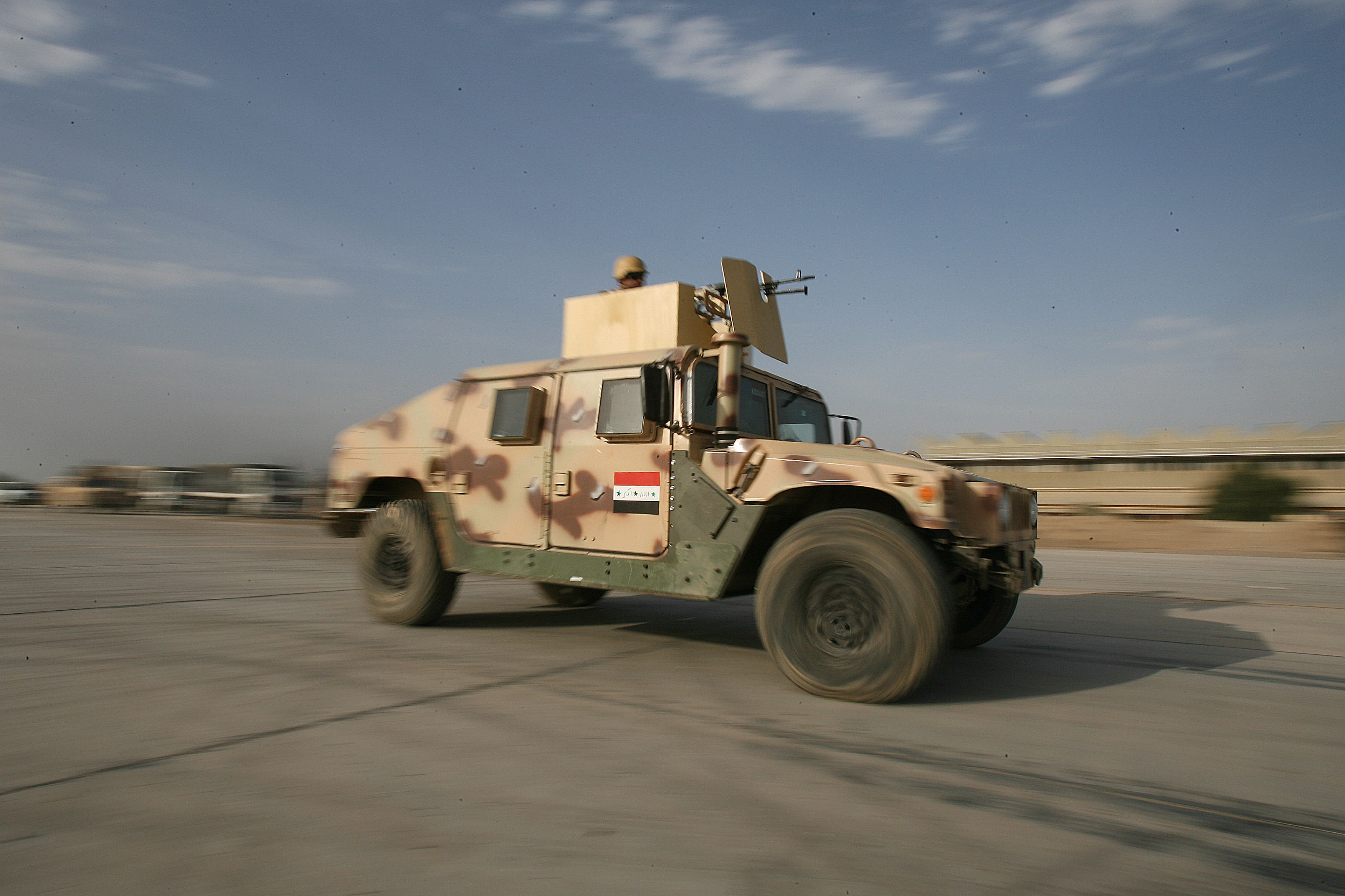 Iraqi soldiers drive on one of their new armored humvees. The Iraq's 2nd Brigade, 1st Iraqi Division took delivery of 10 armored humvees, purchased by Iraq's Ministry of Defense. The addition of humvees to the Iraqis boosts their protection level and ability to move throughout the Fallujah area. Until now, they were entirely reliant on Nissan pick-up trucks with armor added.